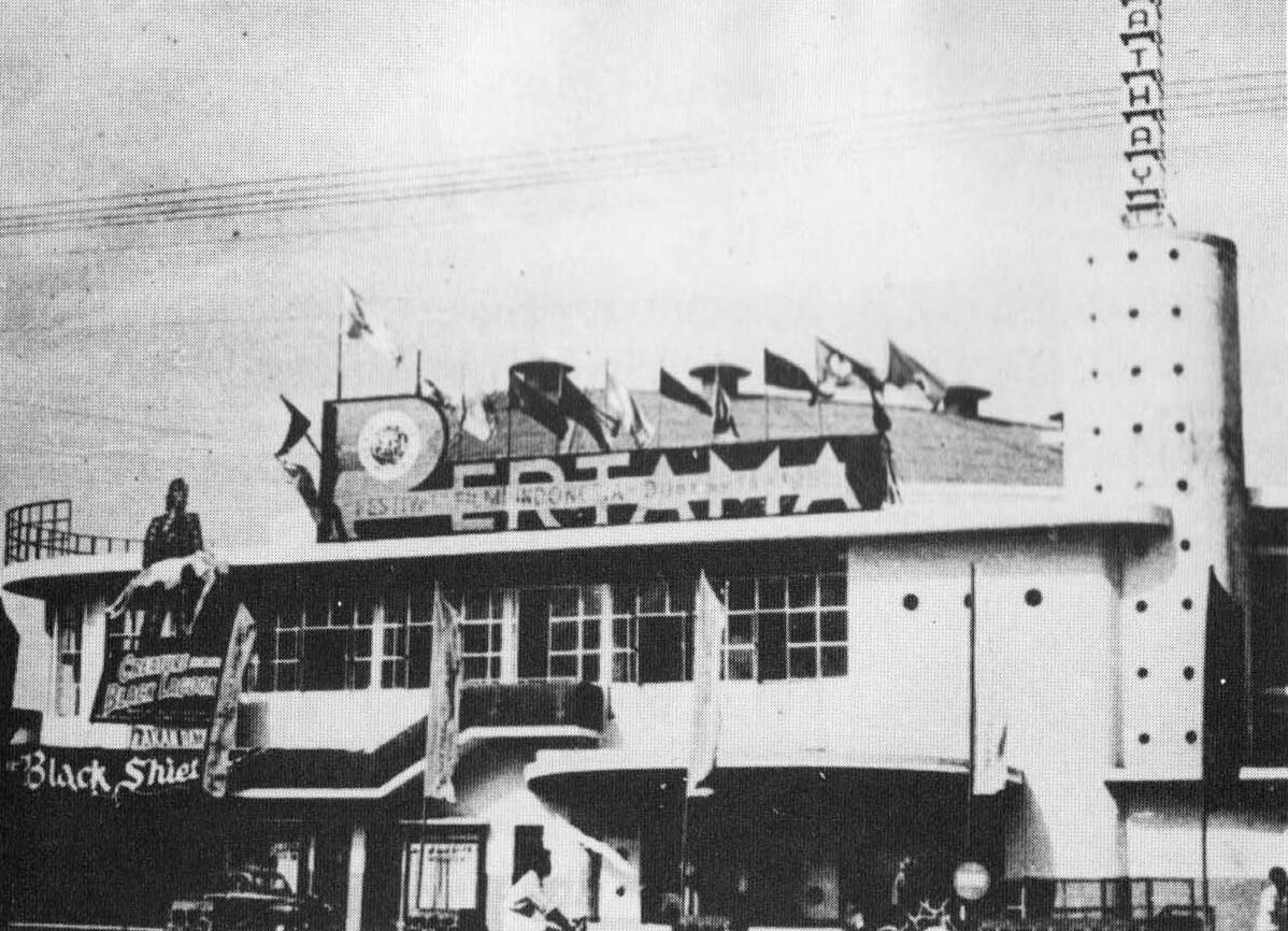 Theatre during first Indonesian Film Festival. Source identifies it as Metropole, but the name card seems to read Cathay. Is showing Creature from the Black Lagoon and The Black Shield of Falworth